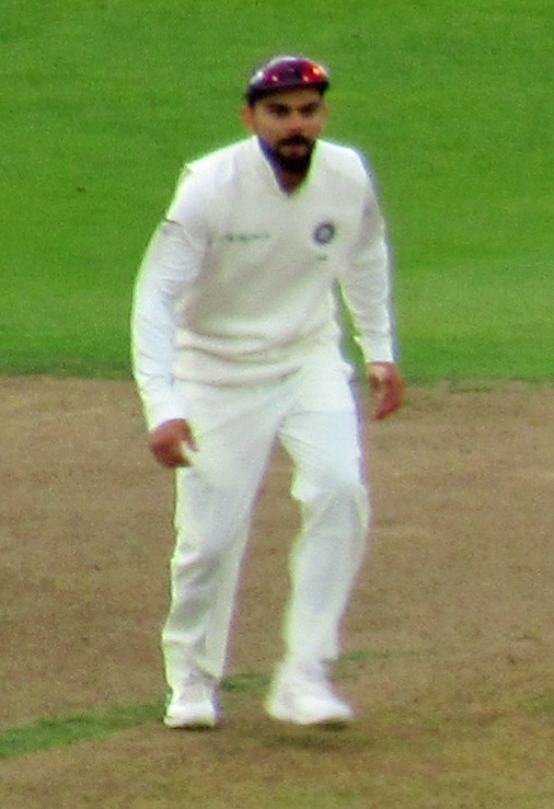 R Ashwin bowling to Alistair Cook; Virat Kohli fielding on the left of the picture.